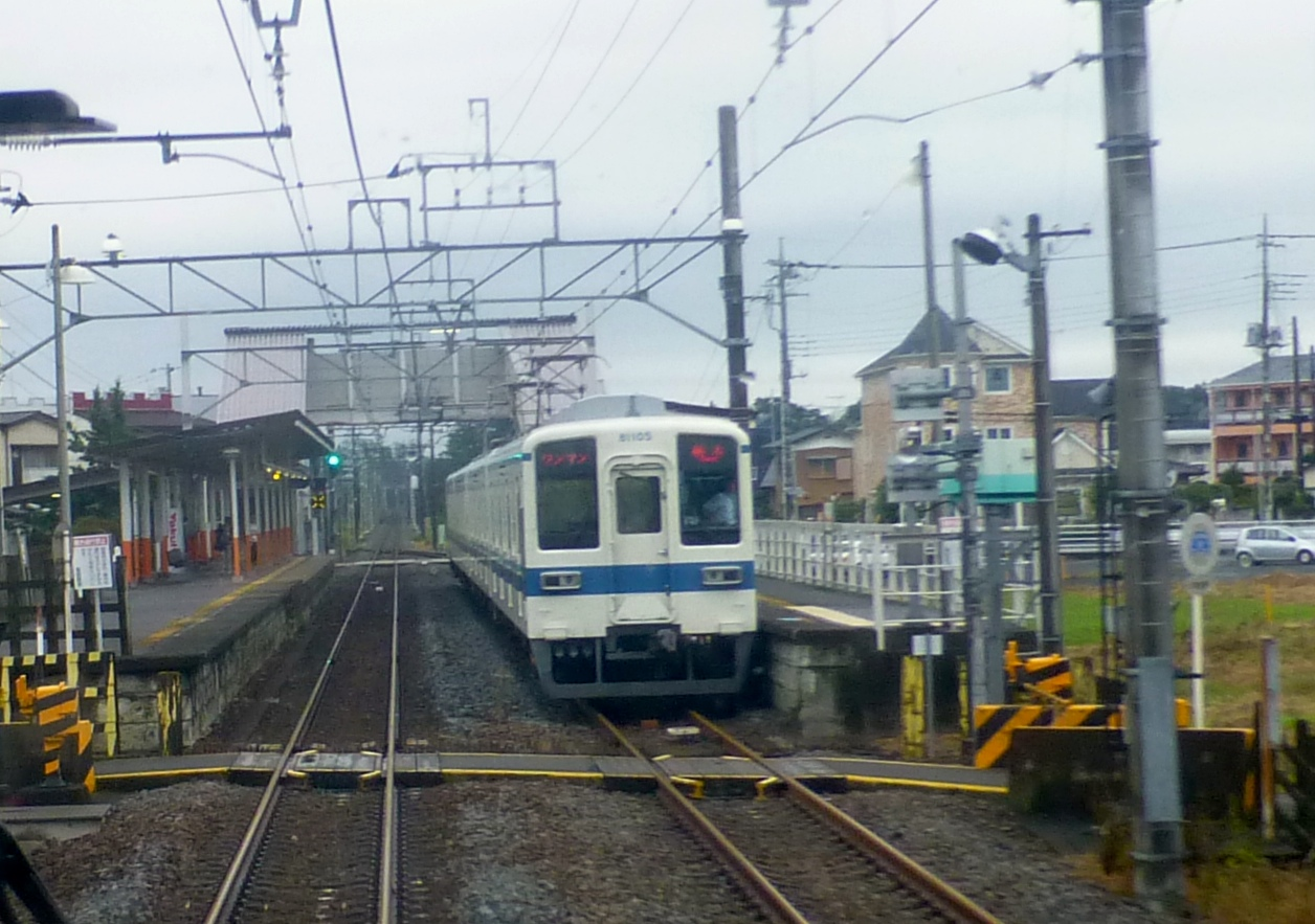 Yashū-Hirakawa Station platform (野州平川駅のホーム)